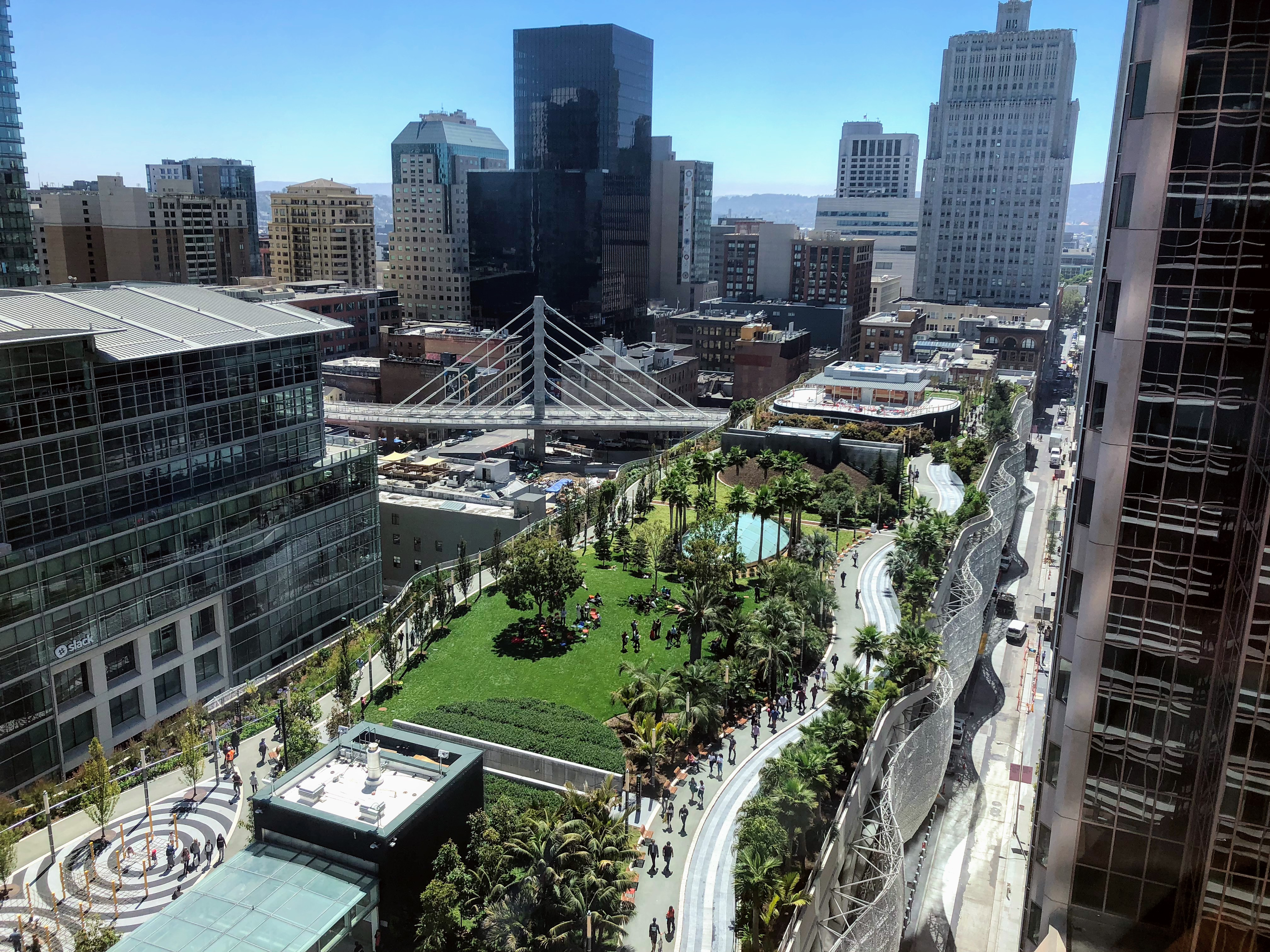 The rooftop park atop the Transbay Transit Center in San Francisco, as seen from Salesforce Tower.